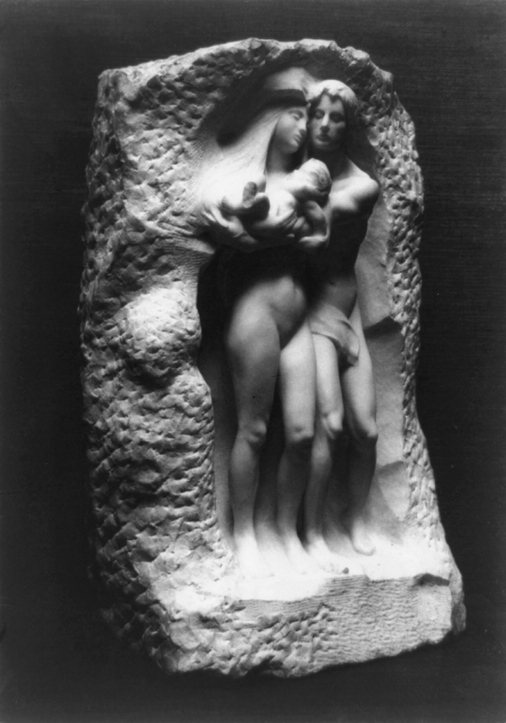 George Grey Barnard (George Gray Barnard), The Birth, marble, exhibited at the Armory Show, Gallery A, 1913, New York. (Photographic print). Possibly a study for Barnard's Urn of Life